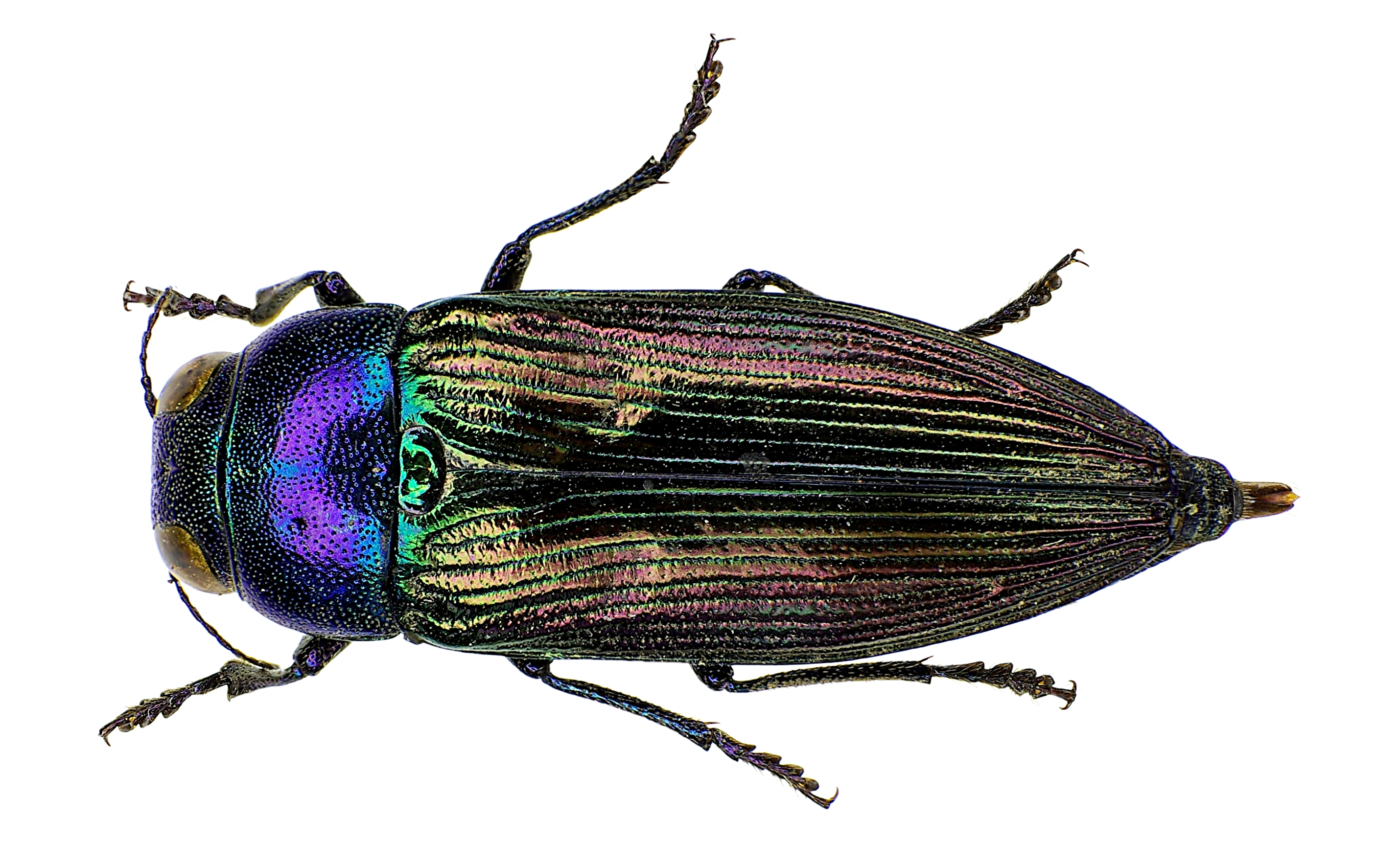 Eurythyrea austriaca male from Greece